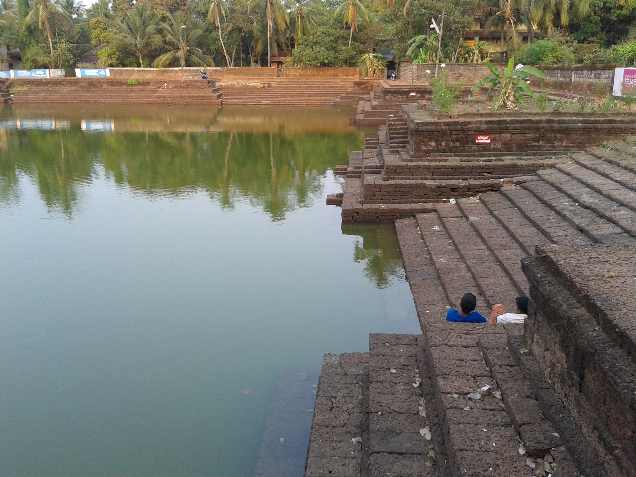 This pond is famous because of fish in the pond. It freely engage with human and accept 'malar nivedyam' or ' meenoot'.